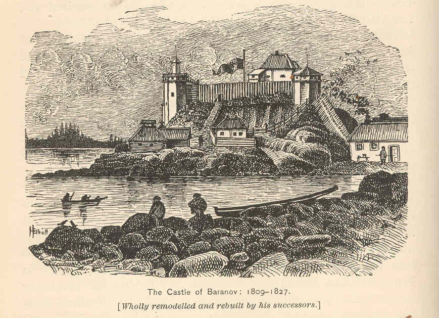 Castle of Baranov : 1809-1827. (Wholly remodeled and rebuilt by his successors) Subject: Baranov, Aleksandr Andreevich, 1745-1819--Homes and Haunts, Sitka (Alaska)--Buildings, Structures, Etc., Sitka (Alaska)--Fortifications, military installations, etc. Geographic Subject: United States--Alaska--Sitka Tag: Coasts